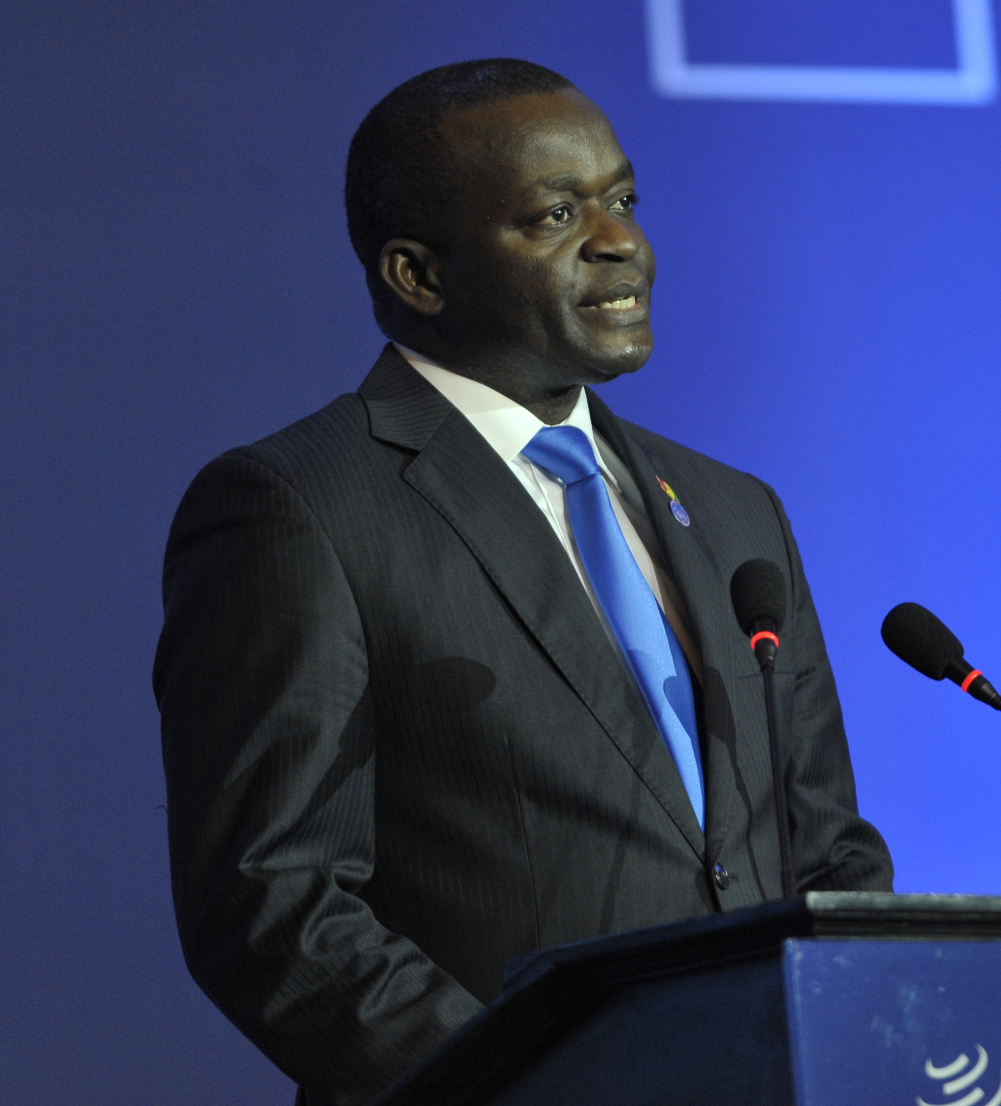 Alioune Sarr - Day 3 of the WTO's Ministerial Conference, Bali, 3 December 2013.